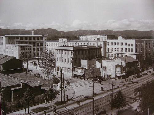 The Hirokoji Campus of Ritsumeikan University in 1930